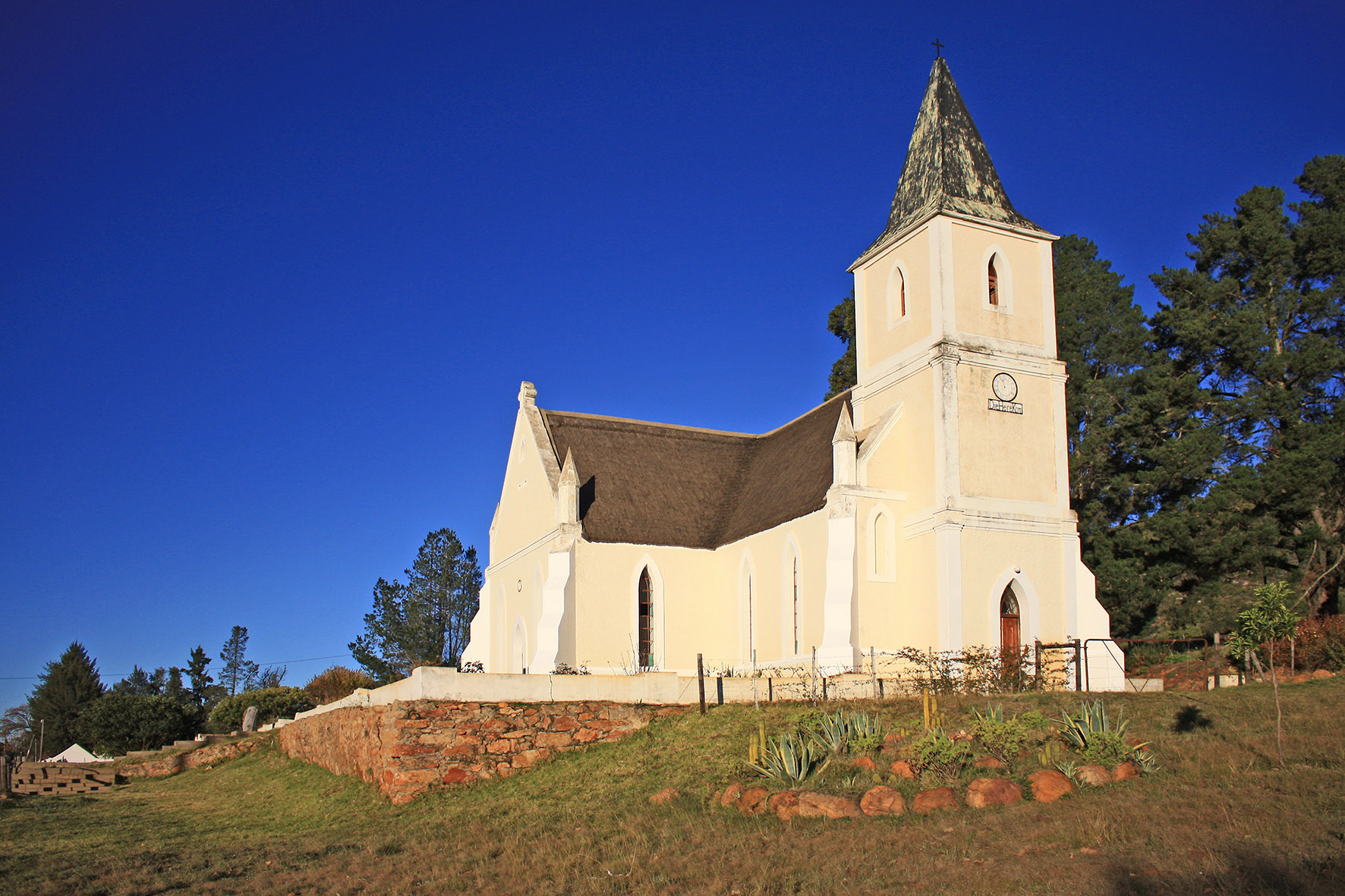 Evangelical Lutheran Church, Haarlem This media shows a South African Protected Site with SAHRA file reference 9/2/096/0006.